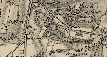 1810 Ordnance Survey map showing location of the village of "Basset", shown on later maps as "Bassett Green" (with "Bassett" significantly further to the west).